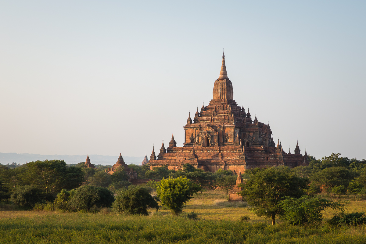 Sulamani temple in Bagan, Burma.